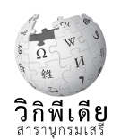 A logo for Wikipedia in the Thai language. Uses the TH Sarabun PSK font.